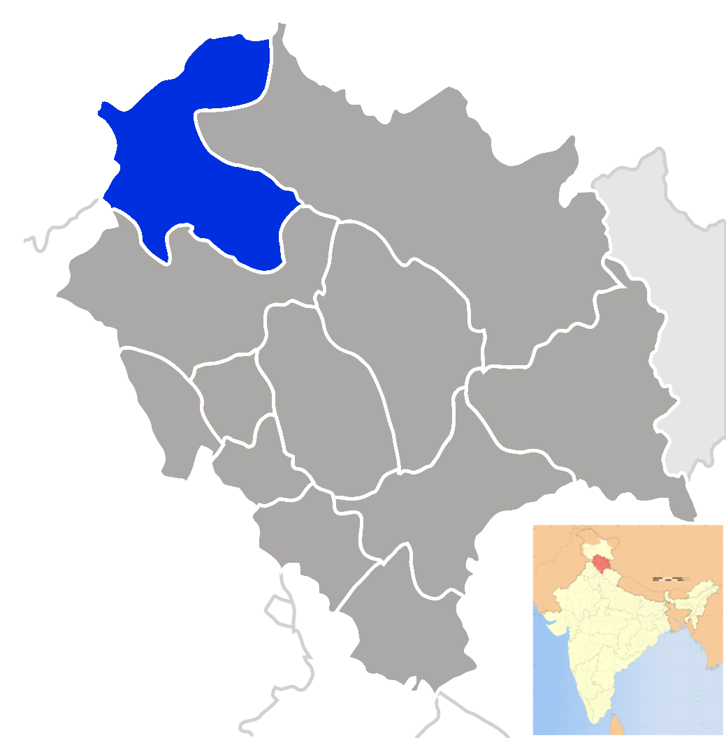 Chamba district of Himachal Pradesh